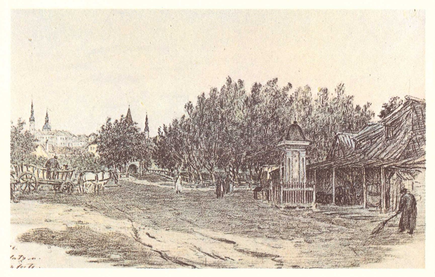 Russian Market square in Tallinn (Estonia) about in 1835, the current Viru Square area; colored drawing by Carl Friedrich Christian Buddeus (1775-1864).